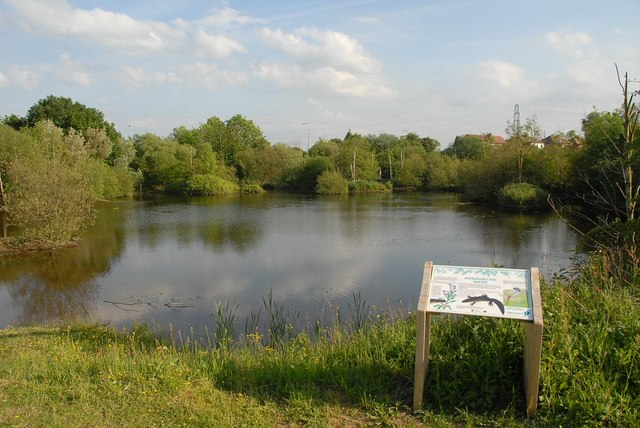 Rixton Clay Pits Rixton Clay Pits is a nature reserve near Glazebrook